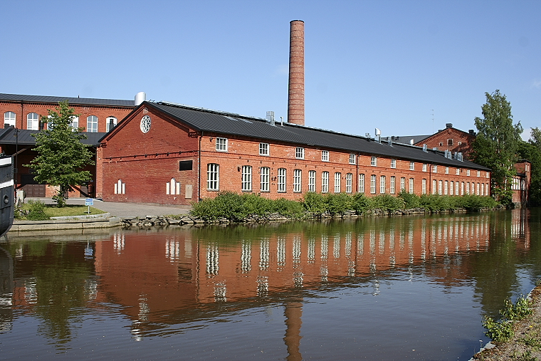 River Loimijoki runs through the centre of town Forssa, Finland